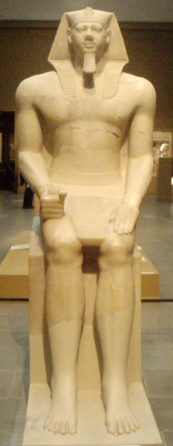 Colossal statue of Menkaura. From the Giza Pyramid Temple of Menkaura, made during his reign (circa 2548-2530 B.C.) Travertine (Egyptian Alabaster). Now residing at the Museum of Fine Arts, Boston. Museum Expedition 09.2.